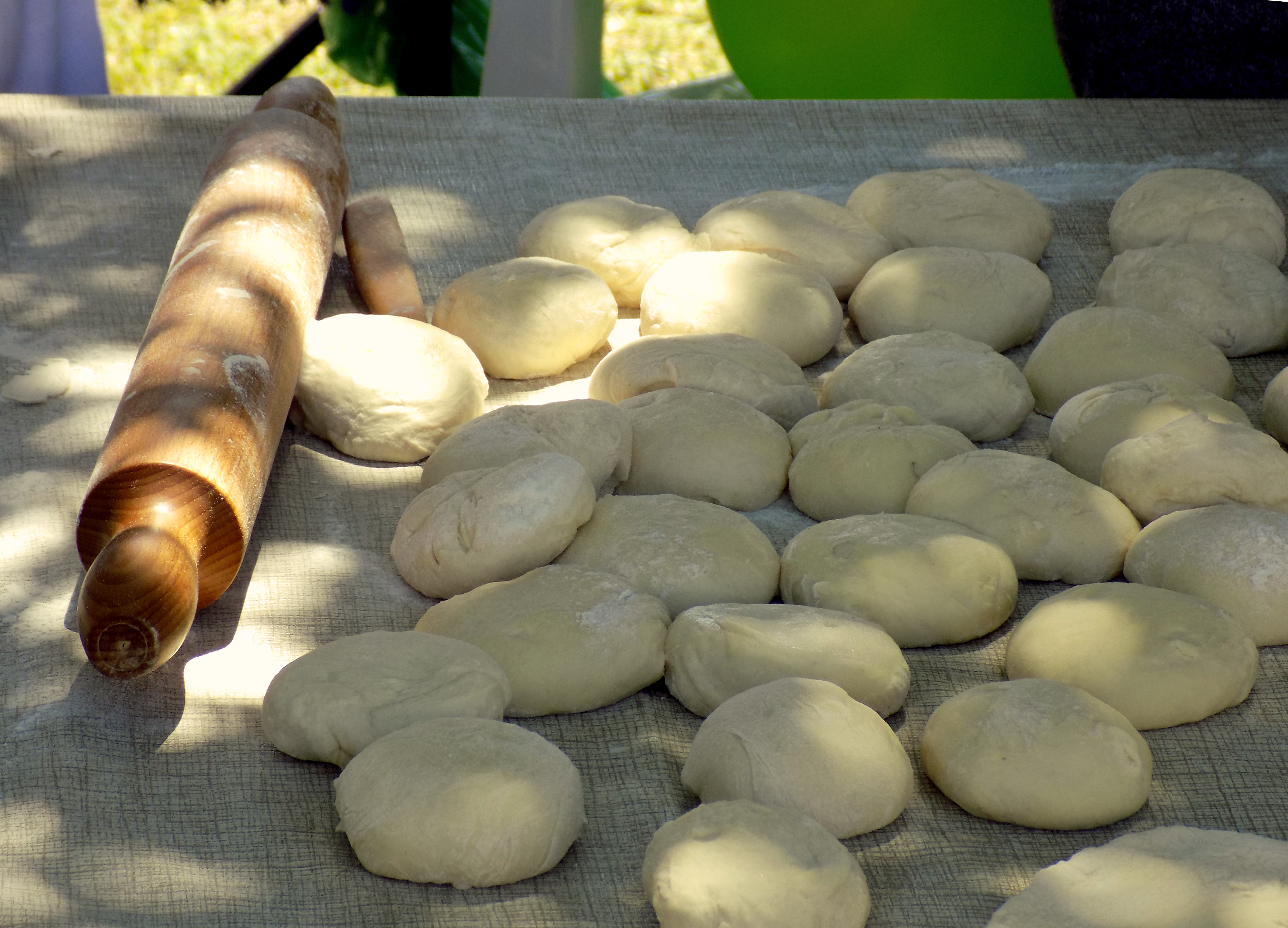 Preparing of Montenegrin donuts - Priganice at the "Carp Day" festival at the Plavnica Eco Resort near Podgorica, Montenegro